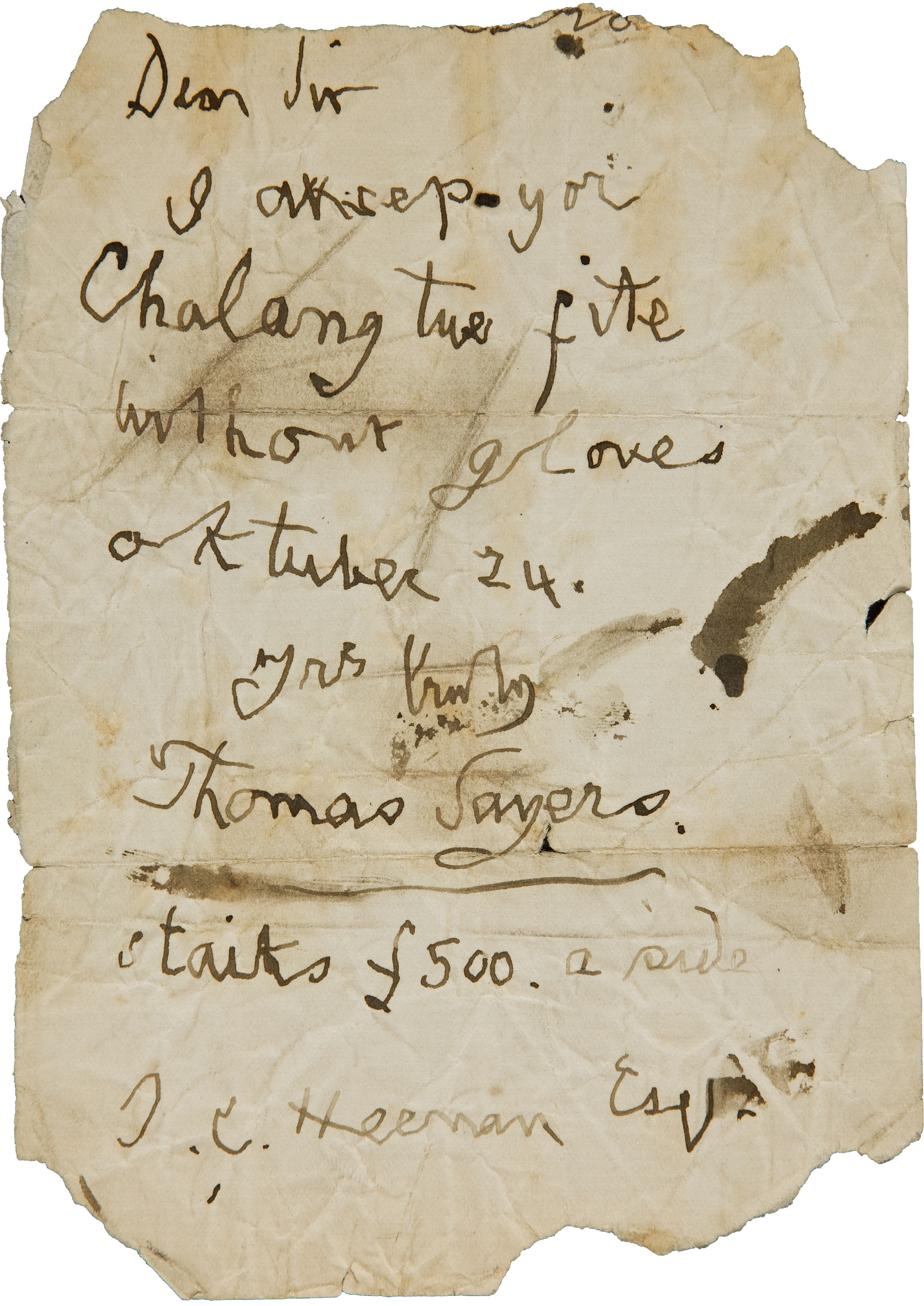 1859 Tom Sayers Handwritten Signed Letter Accepting John Camel Heenan Fight. Transcription reads "Dear Sir, I aksep yor Chalang tue fite without gloves oktuber 24. Yrs. truly Thomas Sayers. staiks £500 a side, J.C. Heenan Esq."